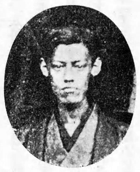 Makino Tadakuni, 12th Lord of Nagaoka